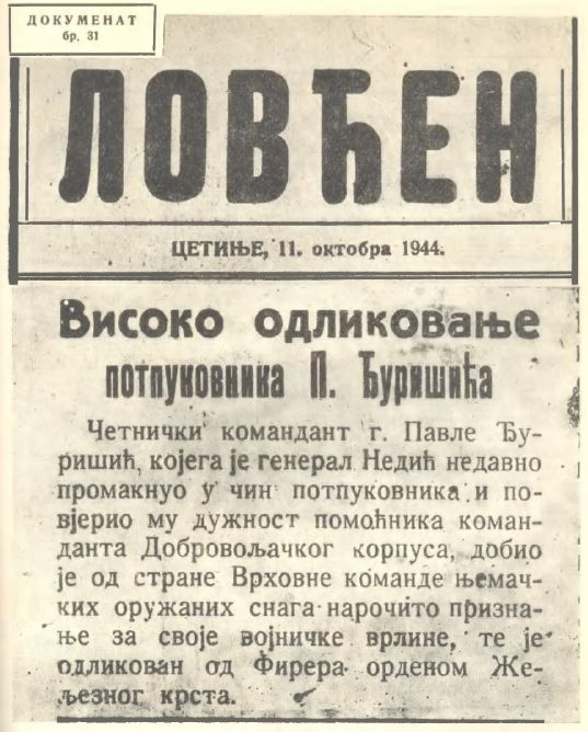 Front page of Lovćen reporting Chetnik commander Pavle Đurišić receiving the Iron Cross (2nd Class) from German Supreme Command.